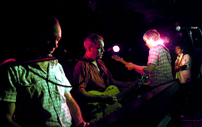 Chris Cacavas, Dan Stuart, Chuck Prophet and Jack Waterson from Green On Red performing at King Tuts, Glasgow.-Photograph by Darren Andrews.